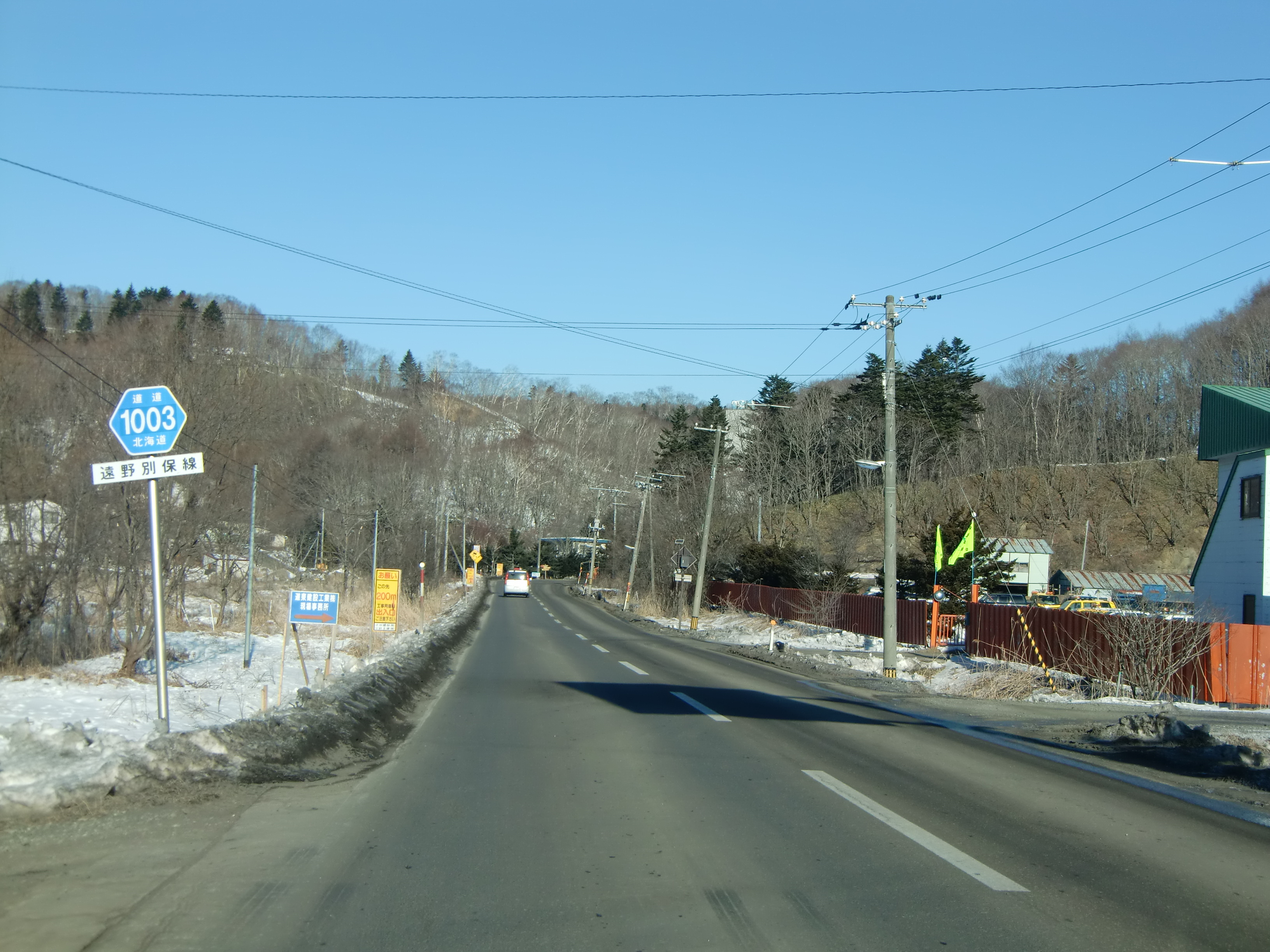 Hokkaido pref road 1003(Tōya-Beppo line) in Beppo-higashi, Kushiro-town, Hokkaido, Japan.